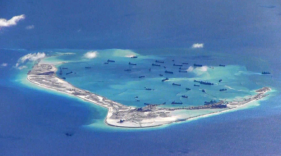 Subi Reef, Spratly Islands, South China Sea, in May 2015, seen from southwest. The source claims it is Mischief Reef, which is clearly wrong when compared with other photos of both reefs.